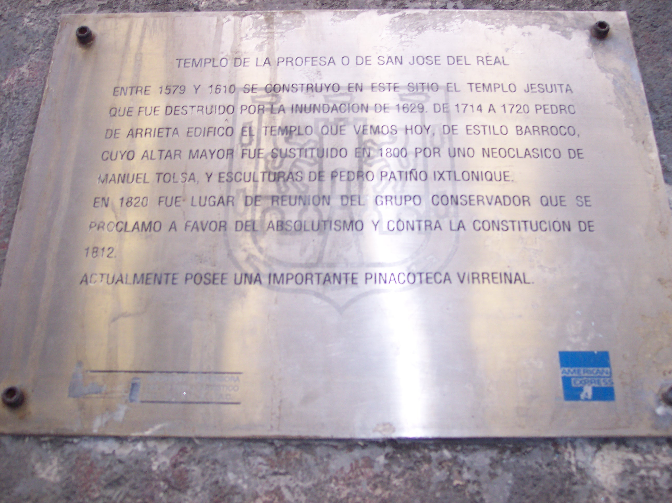 Located in: Historical Center of Mexico City, Mexico.